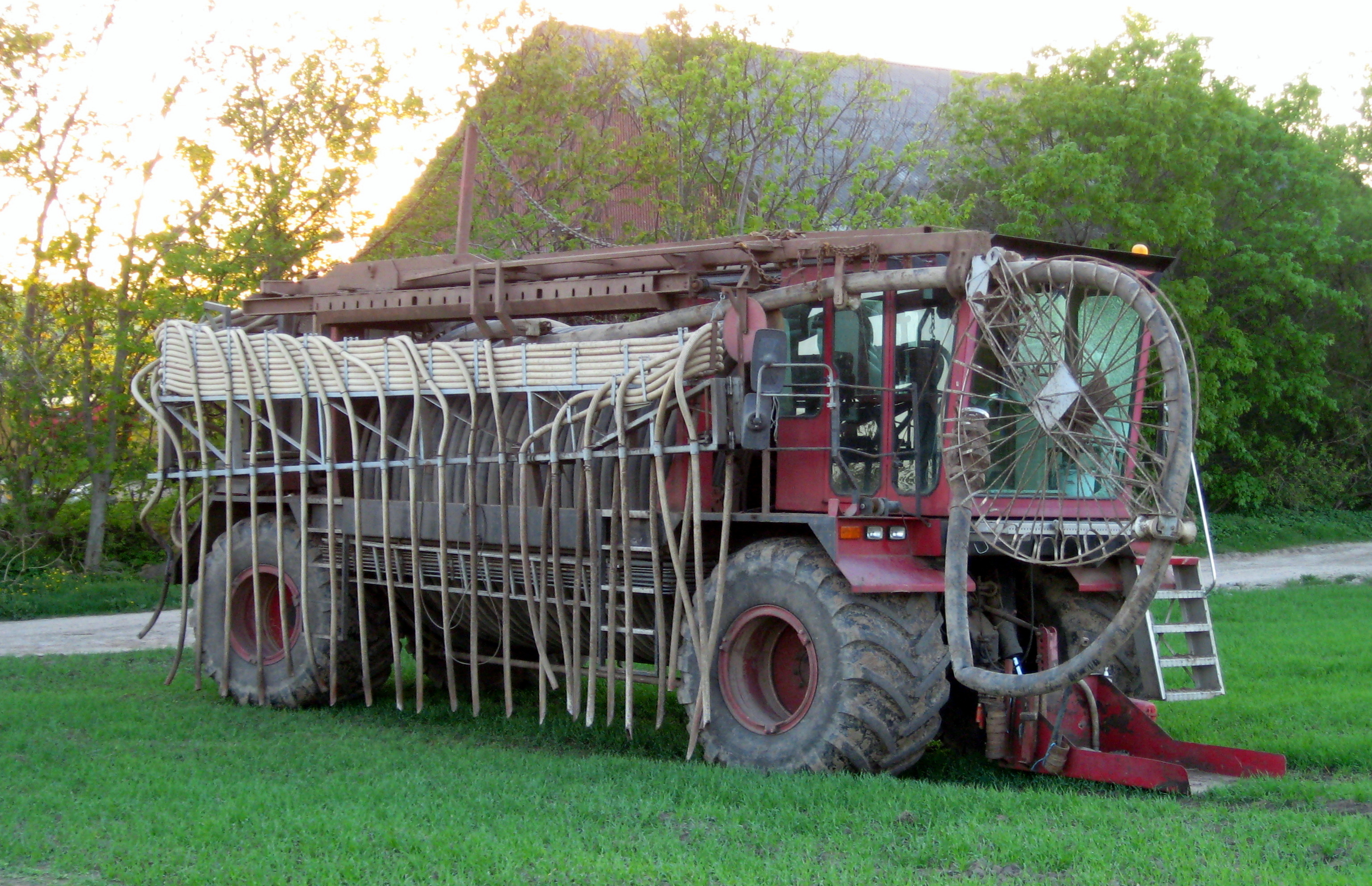 A liquid manure spreader